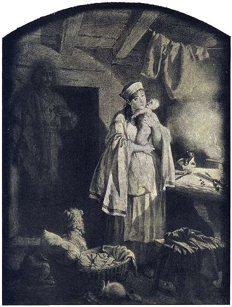 Artur Grottger (1837-1867), "Lithuania", "Duch"